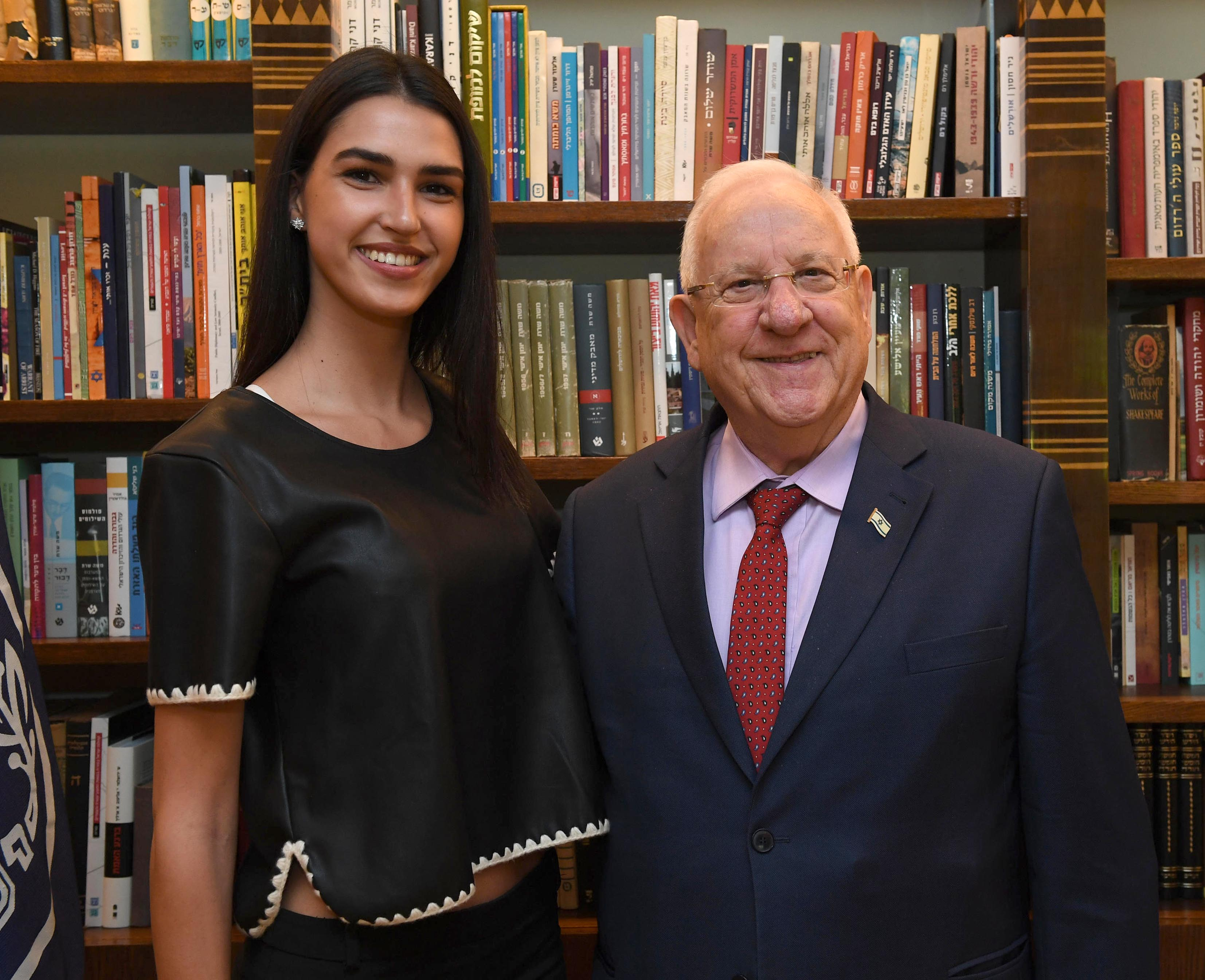 President Reuven Rivlin met with Miss Israel of 2017, Rotem Rabi. Wednesday, October 18, 2017. Credits Photo: Mark Neyman / GPO.